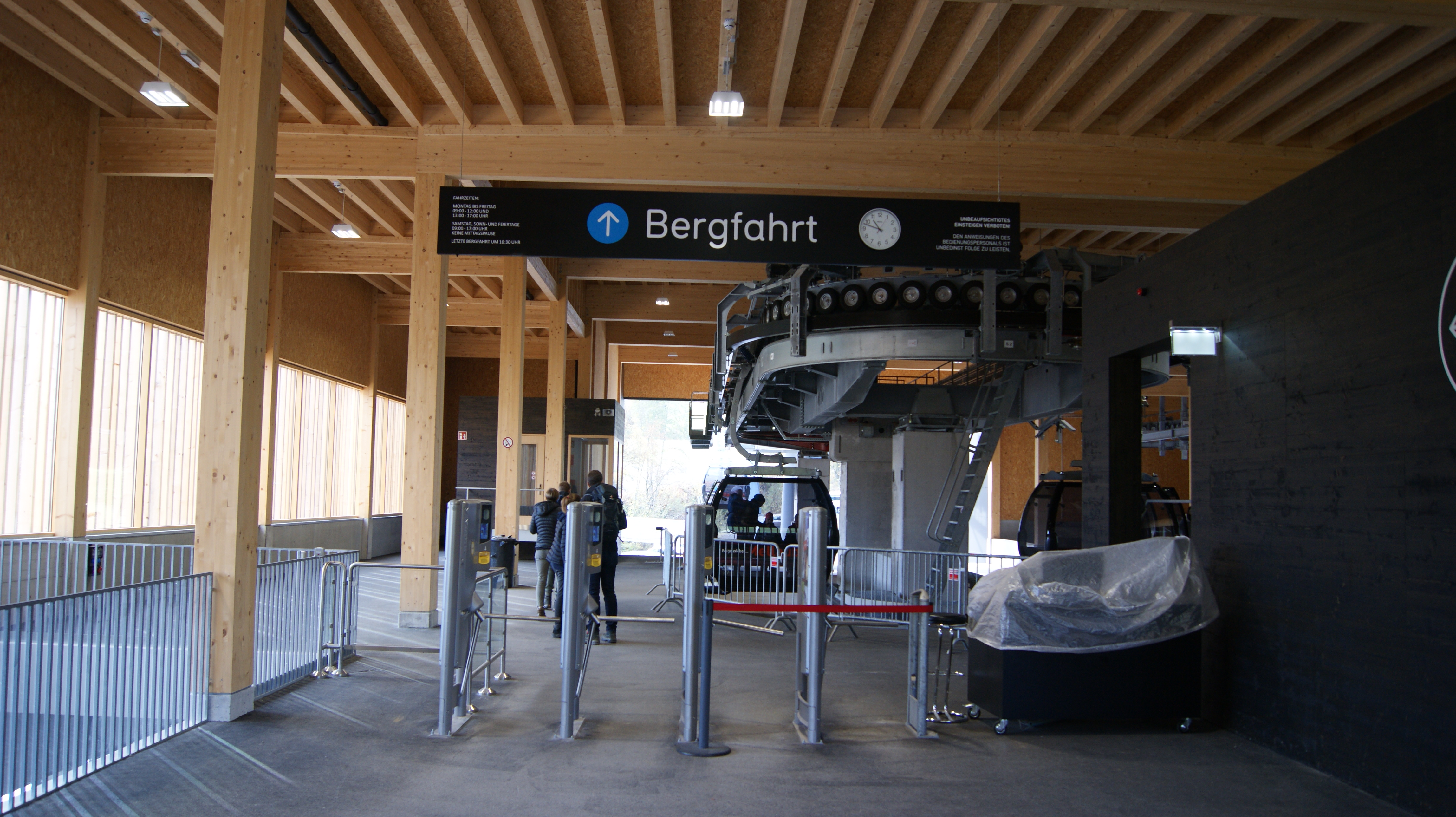 Reversing sheaves and entrance in the lower station of the "Mellaubahn" in Mellau, Vorarlberg, Austria.